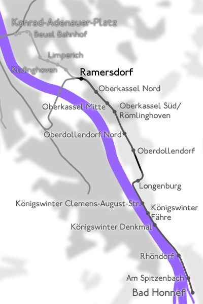 Light railway and tramway line Siebengebirgsbahn – Beuel – Ramersdorf – Königswinter — Bad Honnef